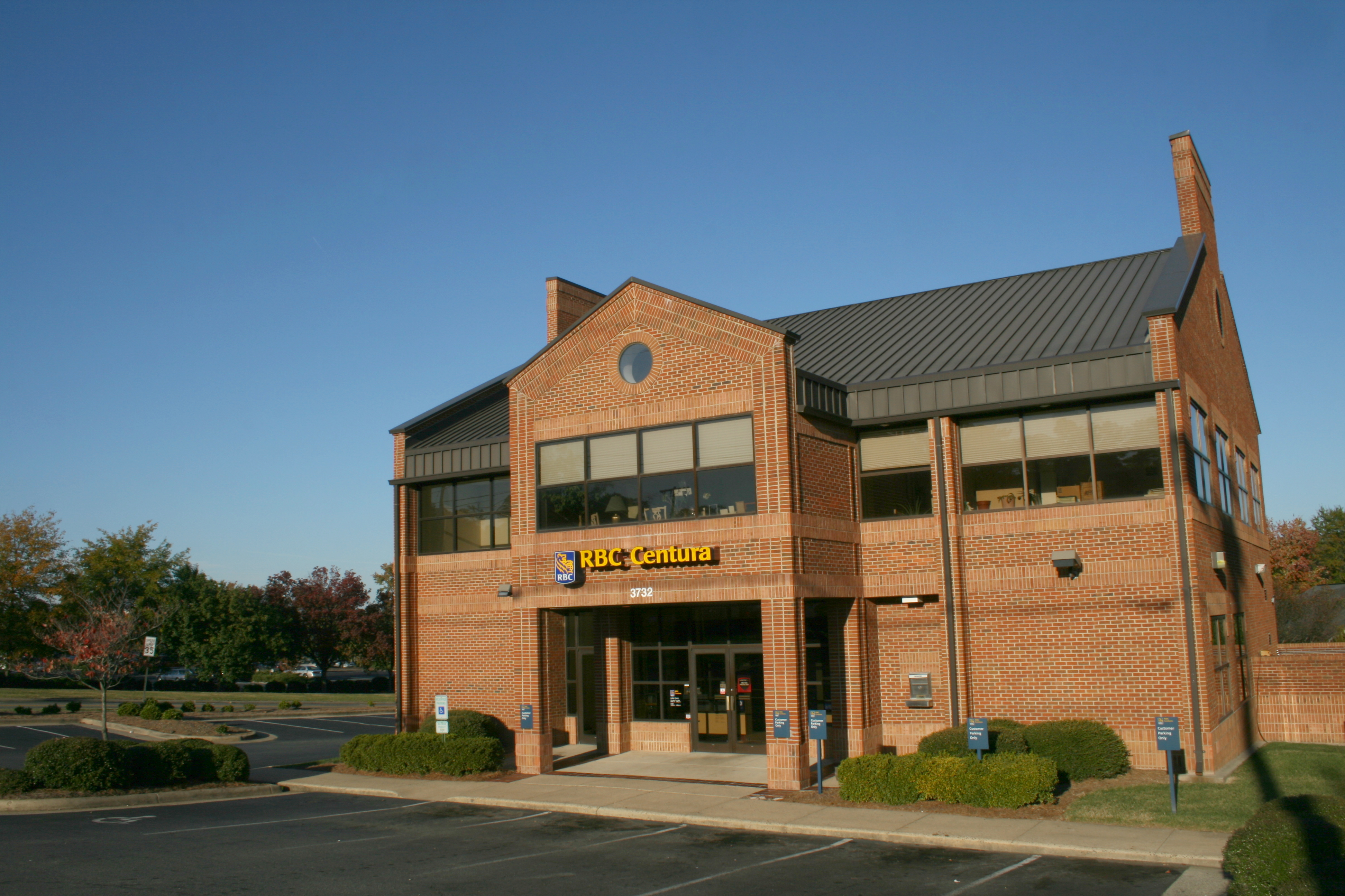 RBC Bank branch at 3732 North Roxboro Street in Durham, North Carolina.